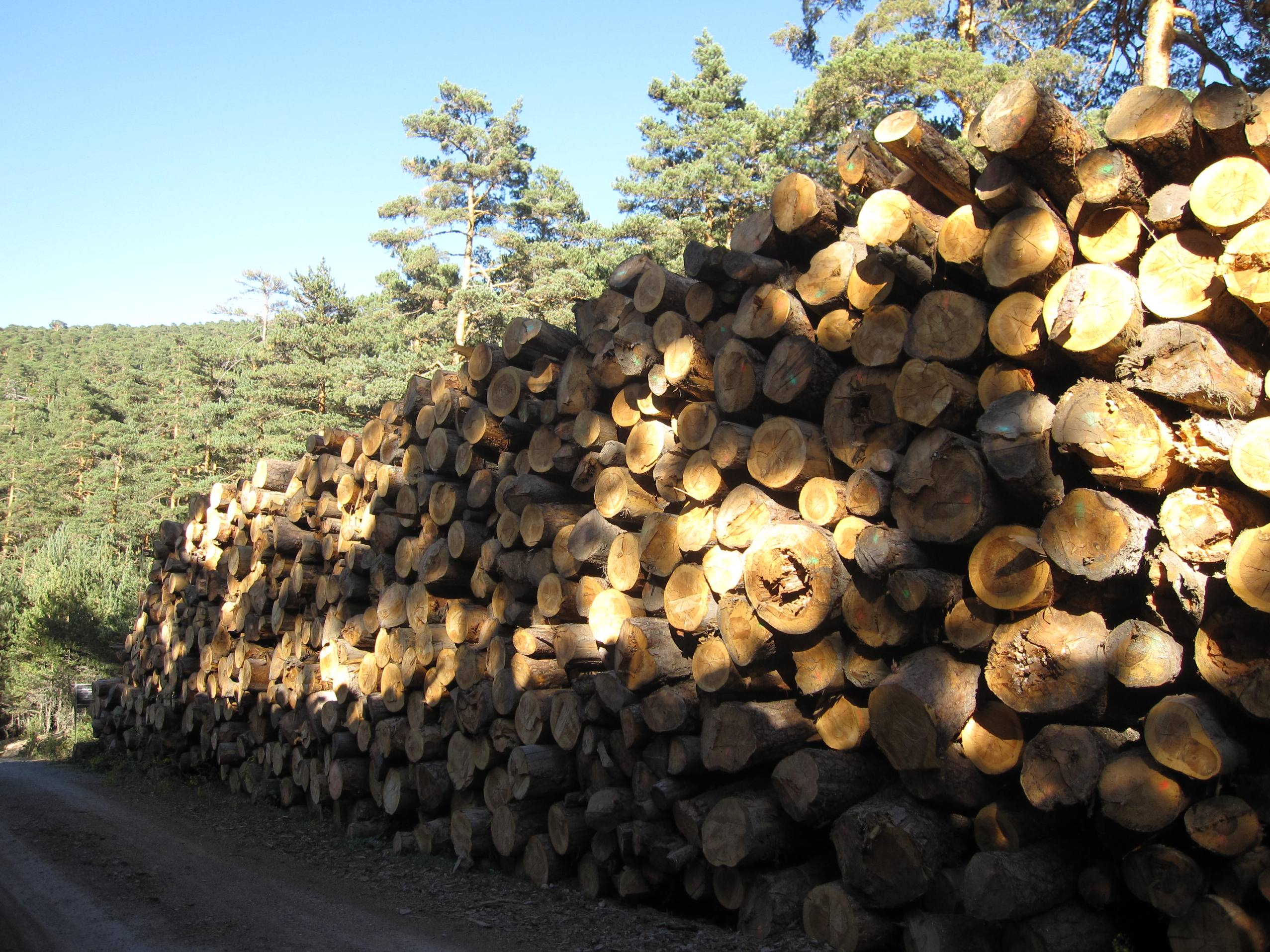 Logging in Valsaín valley (Guadarrama mountain range, central Spain). Trees are Pinus sylvestris.